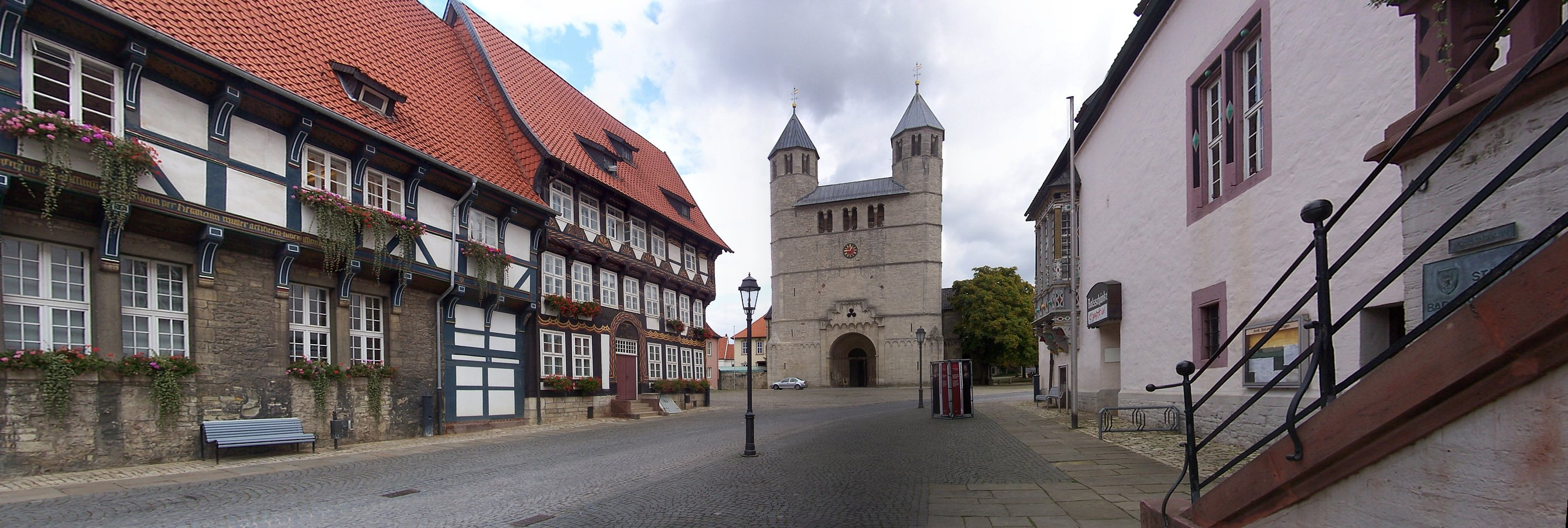 Bad Gandersheim